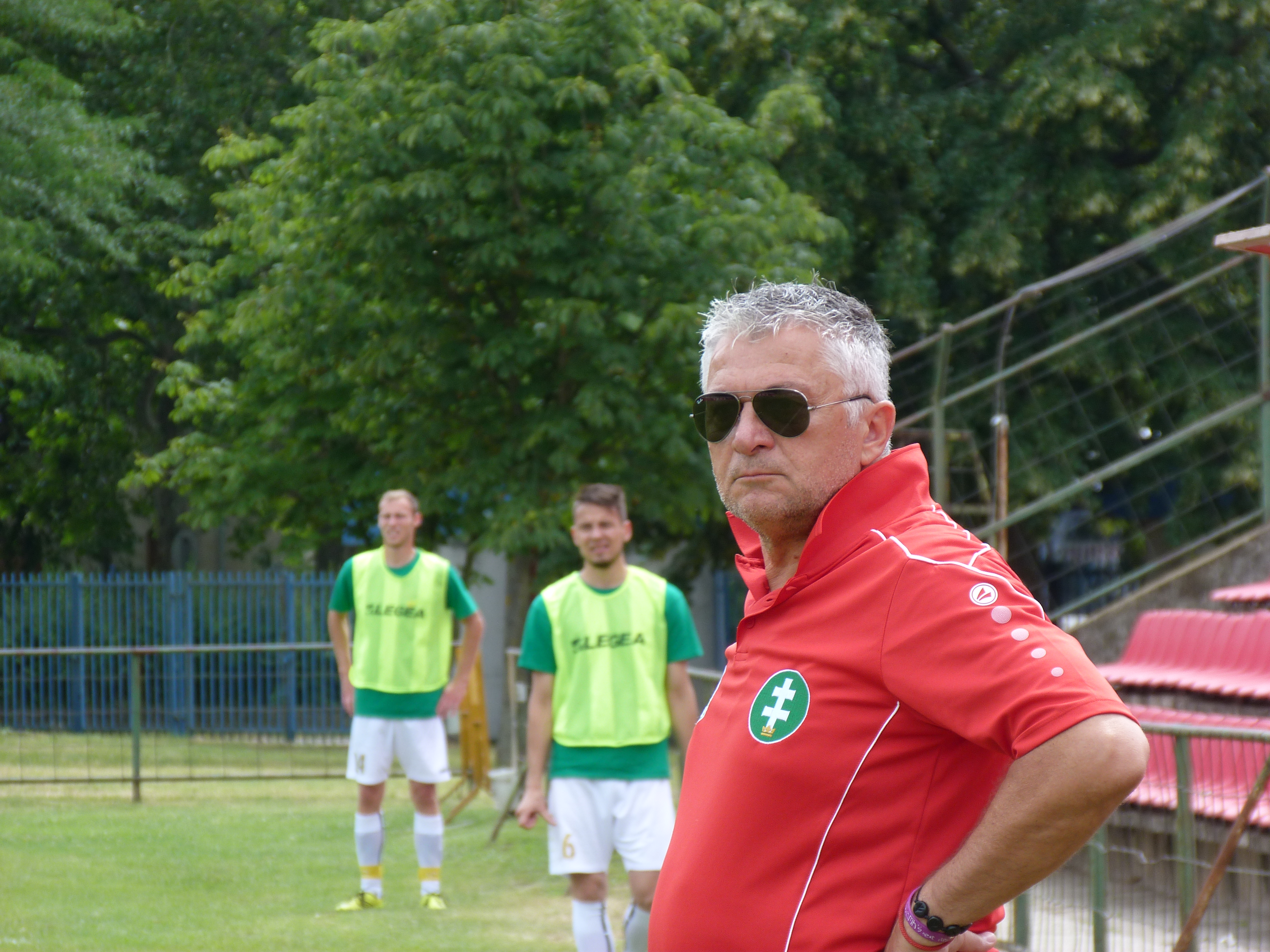 Live in Debrecen, Hungary. 21st of June, 2015. Europe Cup - Confederation of Independent Football Associations, ConIFA. Ellan Vannin - Felvidék. ©© Derzsi Elekes Andor, Budapest, 2015, Published in the Metapolisz DVD line. You are authorised to use this photo under Creative Commons – even for commercial, for profit purposes. The photo must be attributed to Derzsi Elekes Andor. All of the photos and vids in the Metapolisz DVD line are under Creative Commons and can be used even for commercial – for profit – purposes. Recommended Citation Derzsi Elekes Andor: Metapolisz DVD line